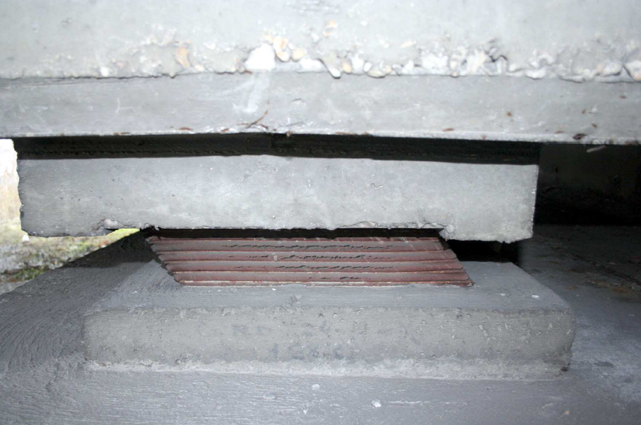 appui neoprene en distorsion sur le pont esclangon